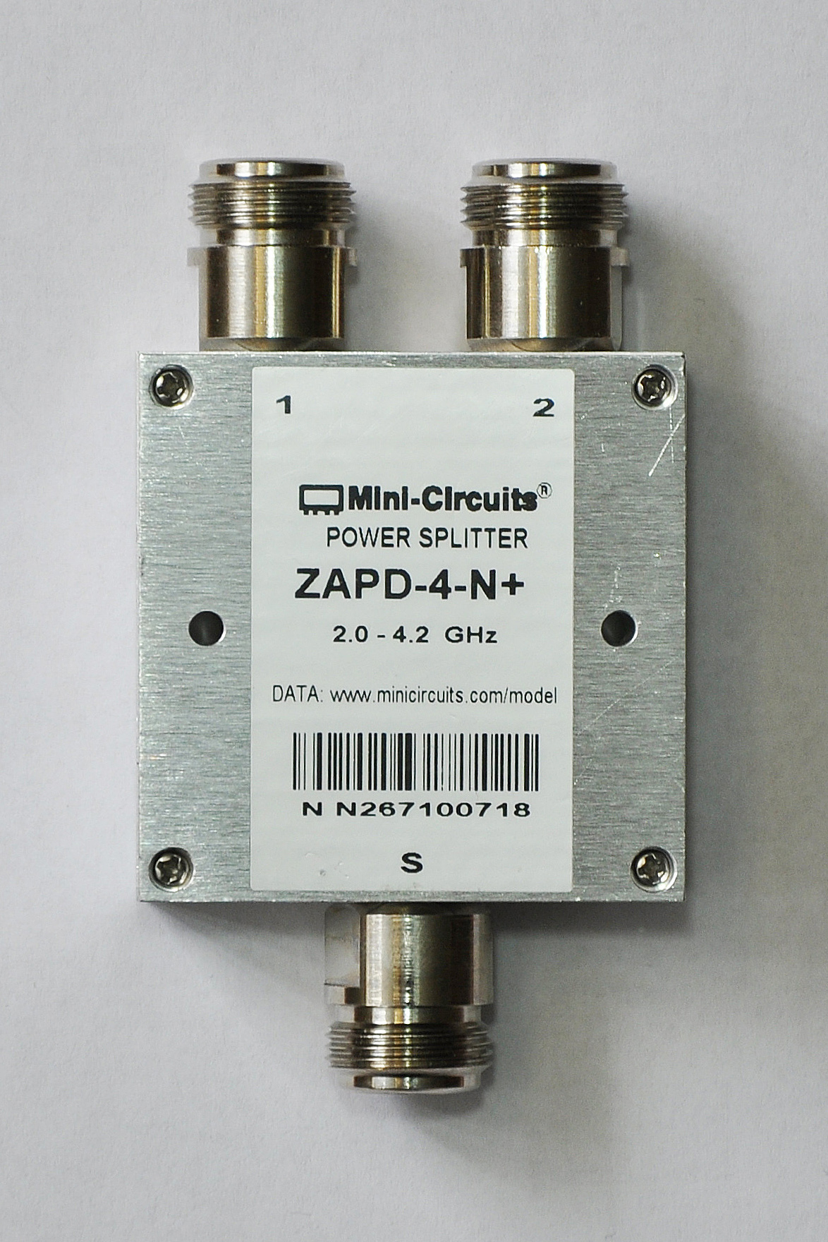 A 2.0 - 4.2 GHz RF power divider/combiner. The ports of this component have a 1:2 ratio.